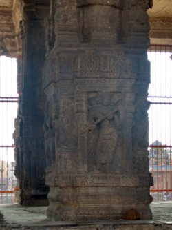 மகாமகக்குள மண்டபங்கள் Mahamaham Tank mandapas